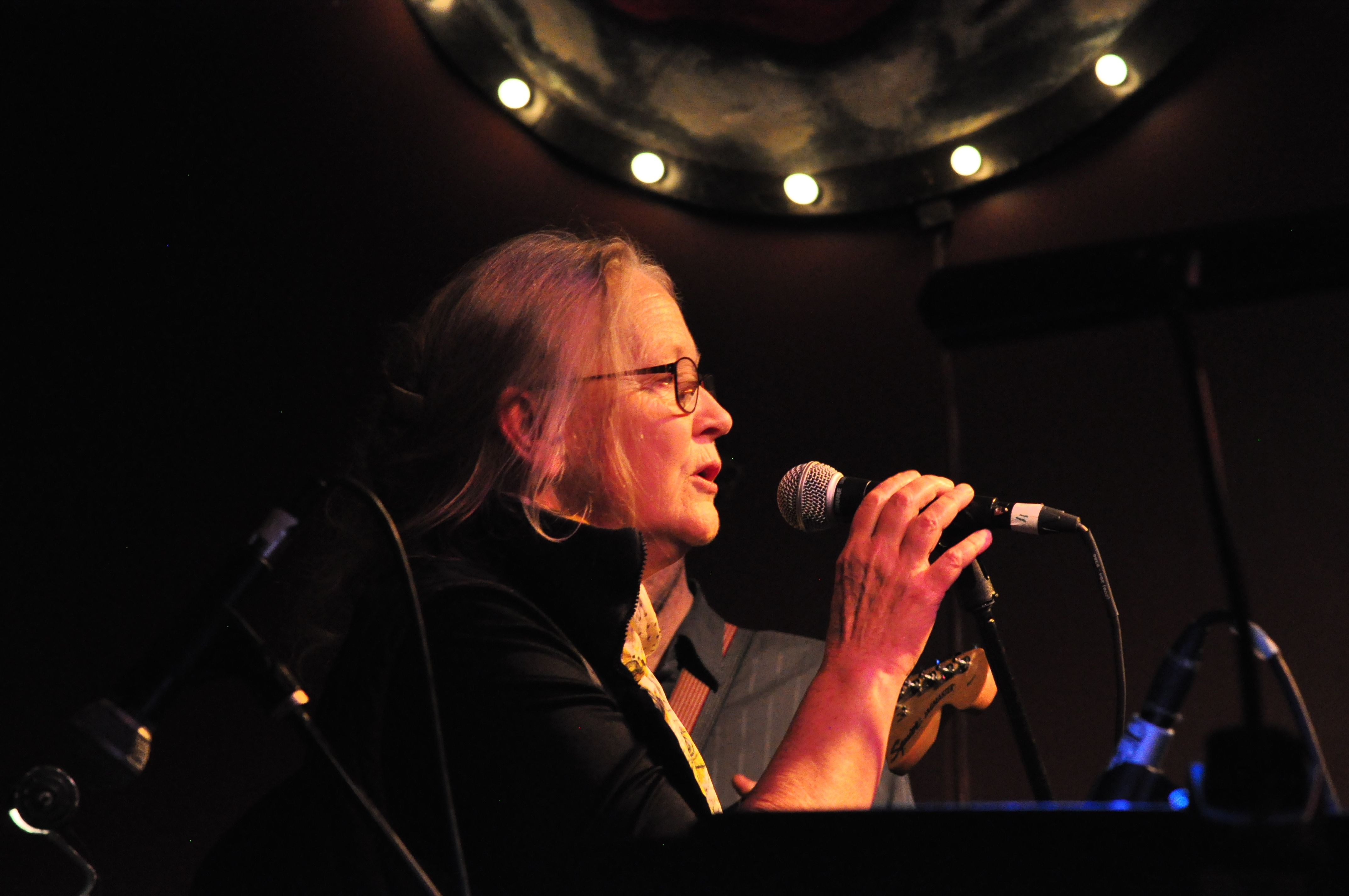 Robin Holcomb singing with Wayne Horvitz's Pigpen (not shown) at the OK Hotel Family Reunion, Royal Room, Columbia City, Seattle, Washington Sunday night, February 28, 2016.